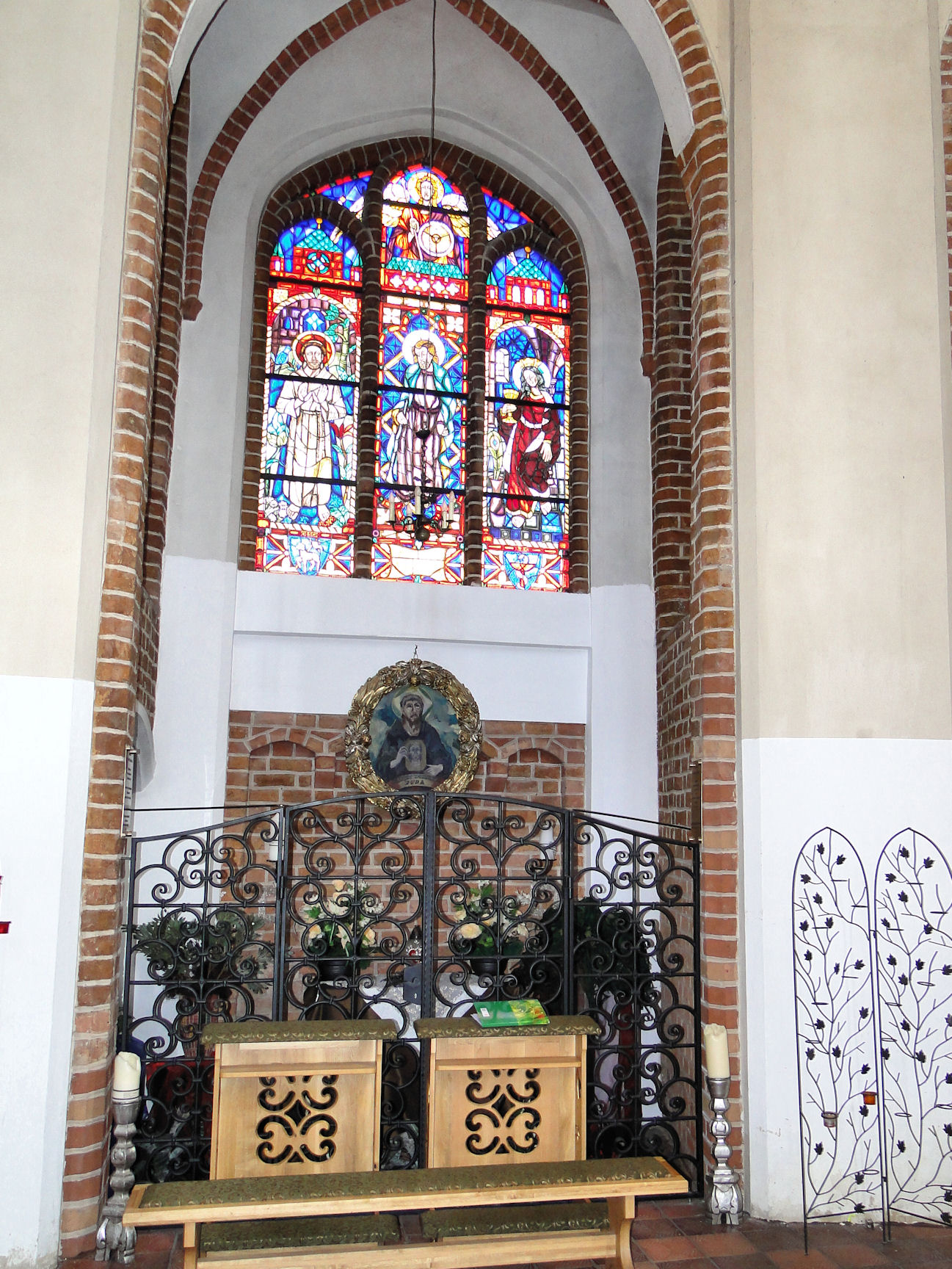 Interior of Szczecin Cathedral